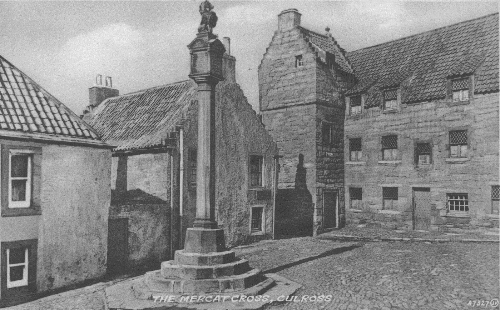 An old Valentine postcard, date unknown.